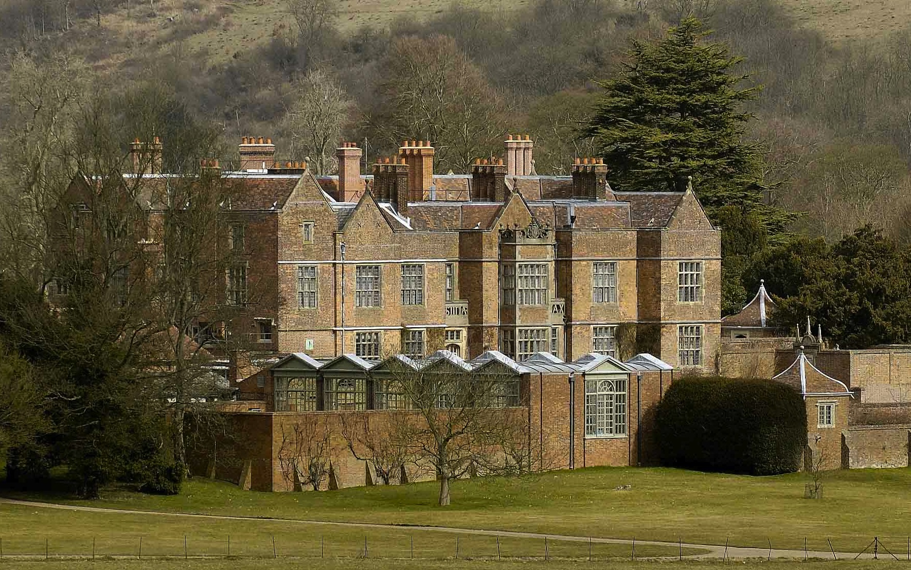 Chequers Court in Ellesborough, Buckinghamshire, England